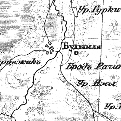 Budymlia on the map "Военно-топографическая карта Российской Империи" (known as "Schubert's map"), XX 5, 1866-1887 (issued in 1913).